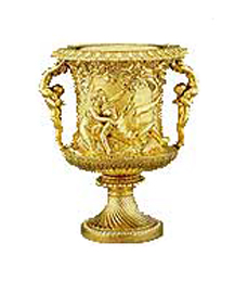 Vermeil wine cooler manufactured by English silversmith Philip Rundell (1746-1827) located in the White House Vermeil Room.